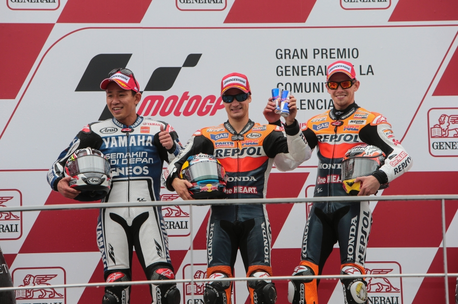 Katsuyuki Nakasuga, Dani Pedrosa and Casey Stoner, celebrating on the podium after finishing in second, first and third position at the 2012 Valencian Community Grand Prix.